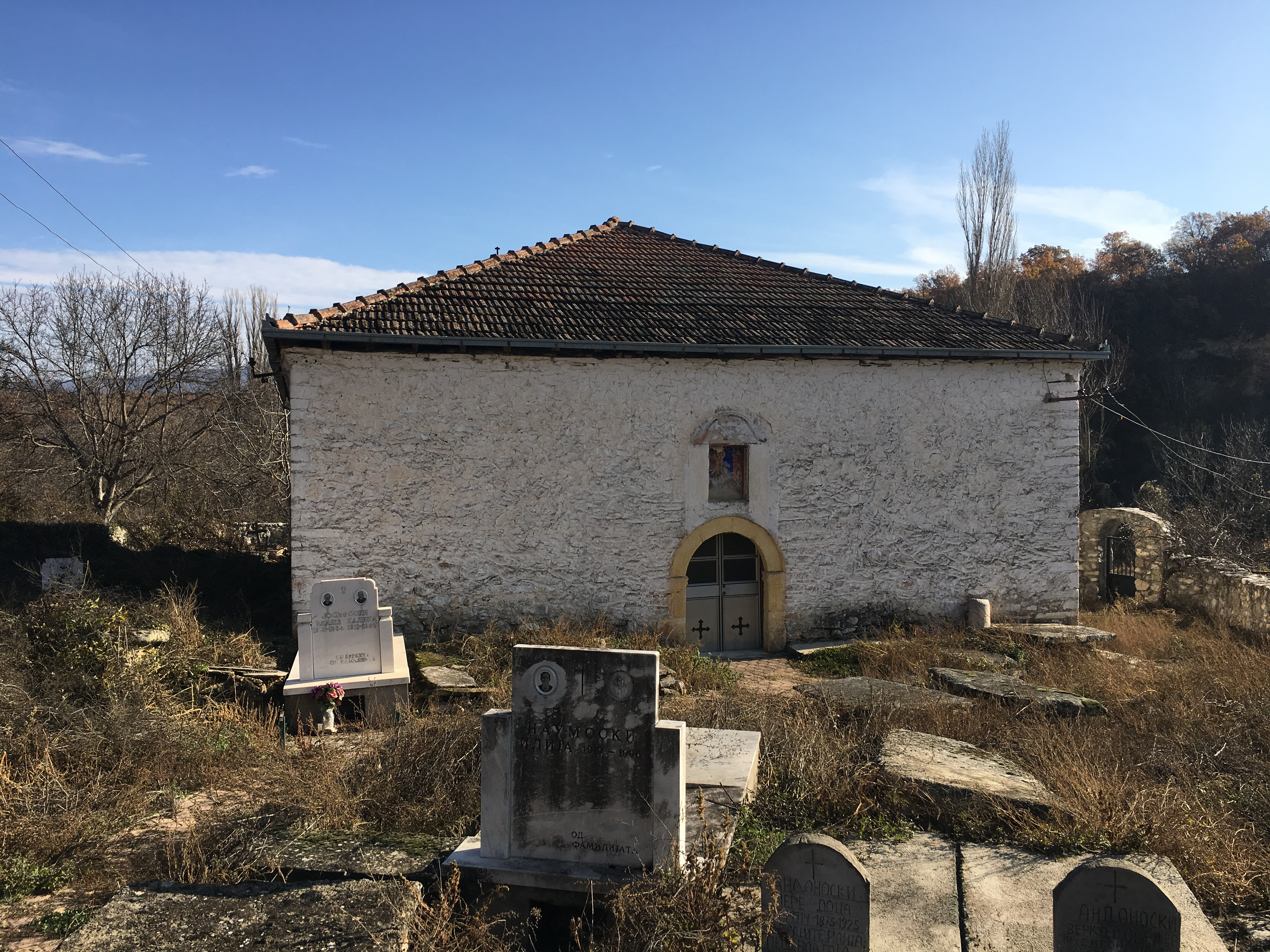 St. George Church in the village of Trojaci